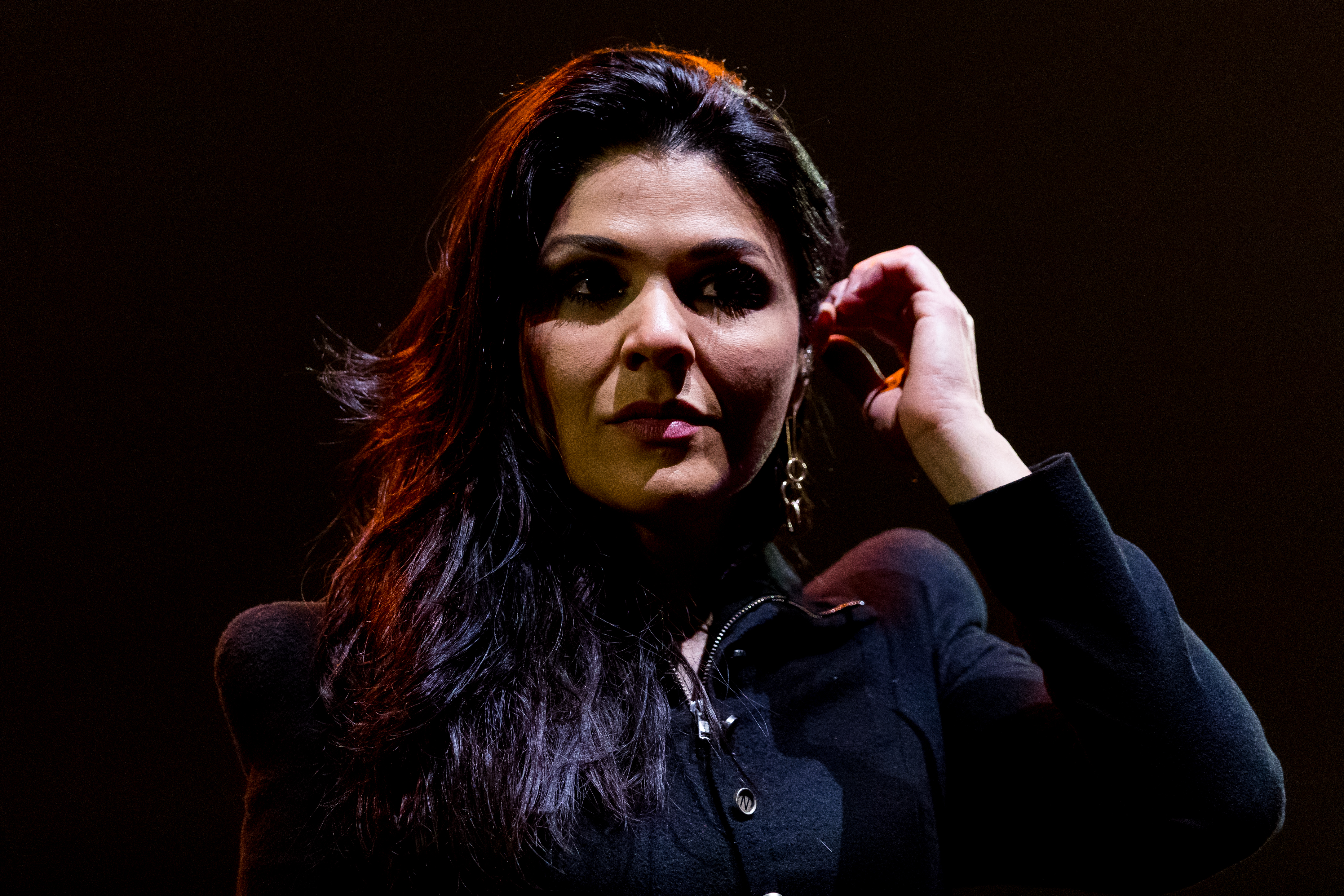 Alexandra Arrieche during Night of the Proms at SAP Arena, Mannheim, Baden-Württemberg, Germany on 2017-12-22, Photo: Sven Mandel